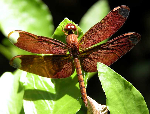 Fulvous Forest Skimmer (Neurothemis fulvia) taken at Sepahijala WLS, Tripura, India.